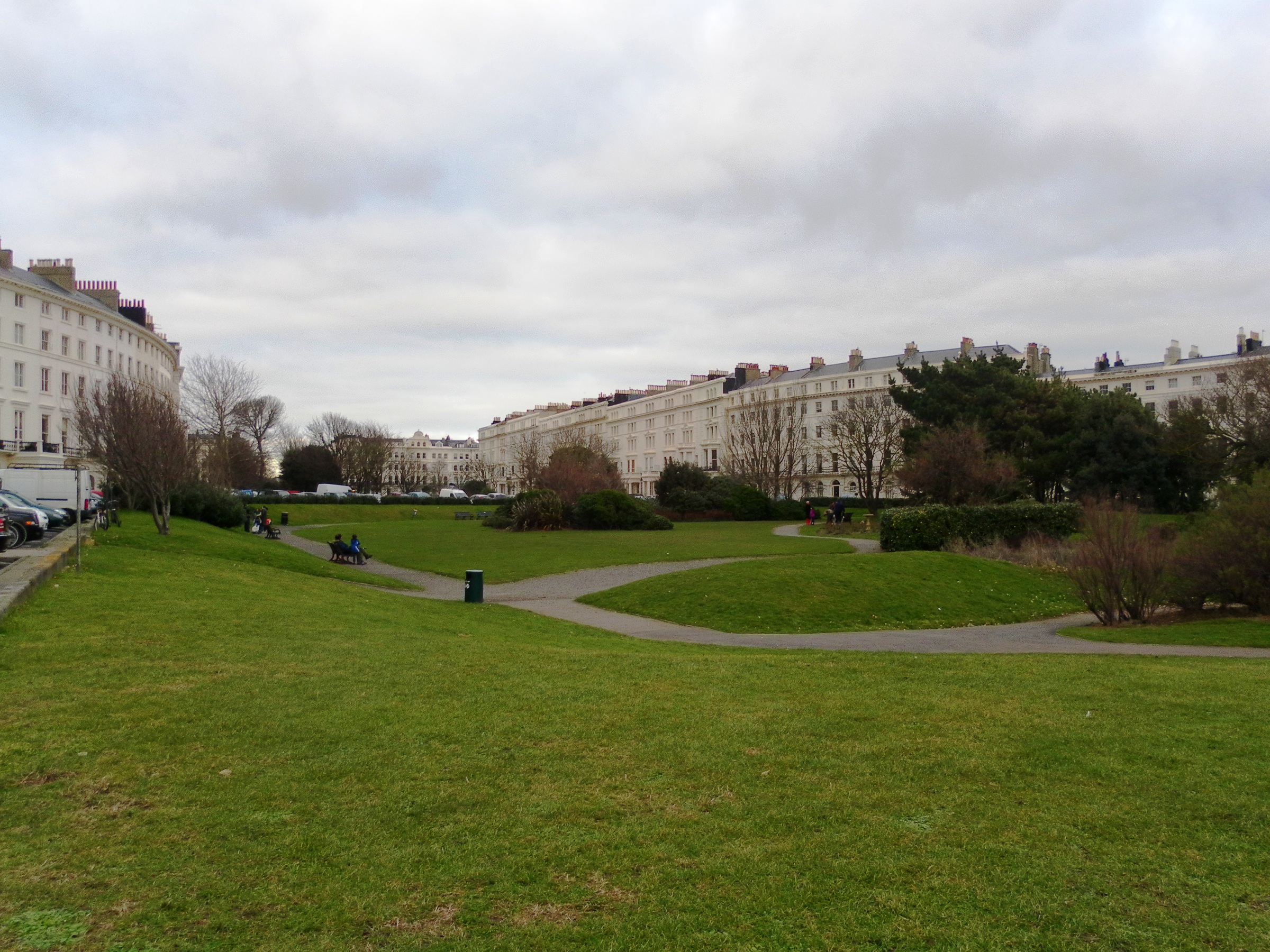 Adelaide Crescent (left and right foreground), the east side of Palmeira Square (centre background) and Palmeira Mansions (left background), Hove, City of Brighton and Hove, England. Built in the 1830s–1850s, 1850s–1860s and 1883–84 respectively. In the foreground are the enclosures (gardens) of the crescent and the square.]